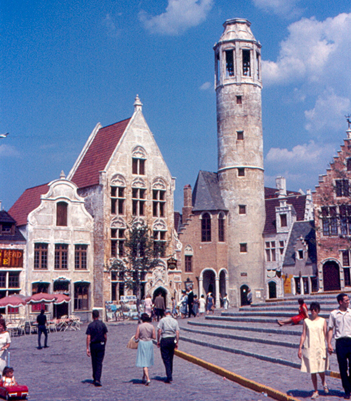 The Belgian Village was a popular exhibit at the New York World's Fair in 1964-1965. Among other things, it sold - and popularized - Belgian waffles.